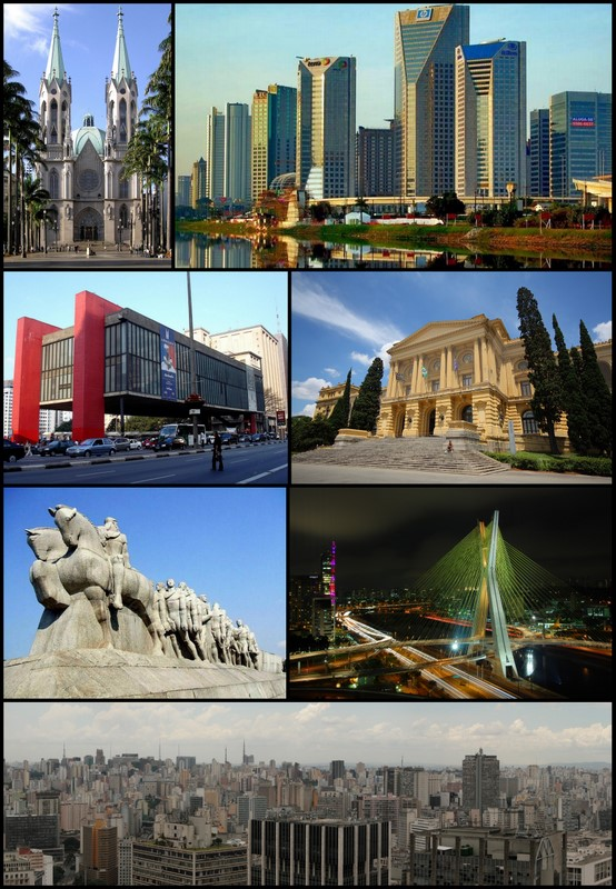 Photo montage of the city of São Paulo, Brazil. From the top, left to right: São Paulo Cathedral, United Nations Business Center, São Paulo Museum of Art on Paulista Avenue, Paulista Museum, Bandeiras Monument, Octávio Frias de Oliveira Bridge, and overview of the historic downtown from Altino Arantes Building